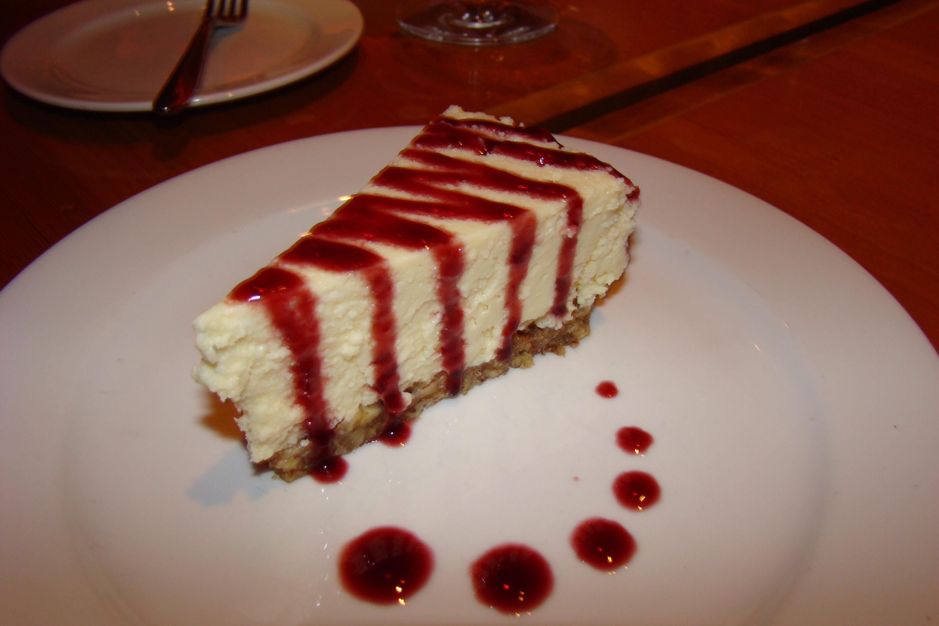 Made with goat cheese I believe. It was excellent.